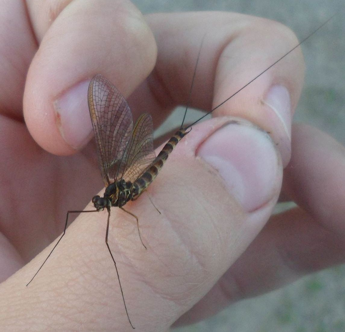 Самец. Россия,Тверская обл., Весьегонский р-н., с. Чистая Дуброва, река Смородинка.